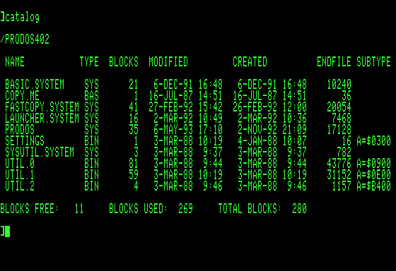 80-column catalog of a 140 kilobyte floppy disk named /PRODOS402 in Apple II series ProDOS 8 operating system version 2.0.3